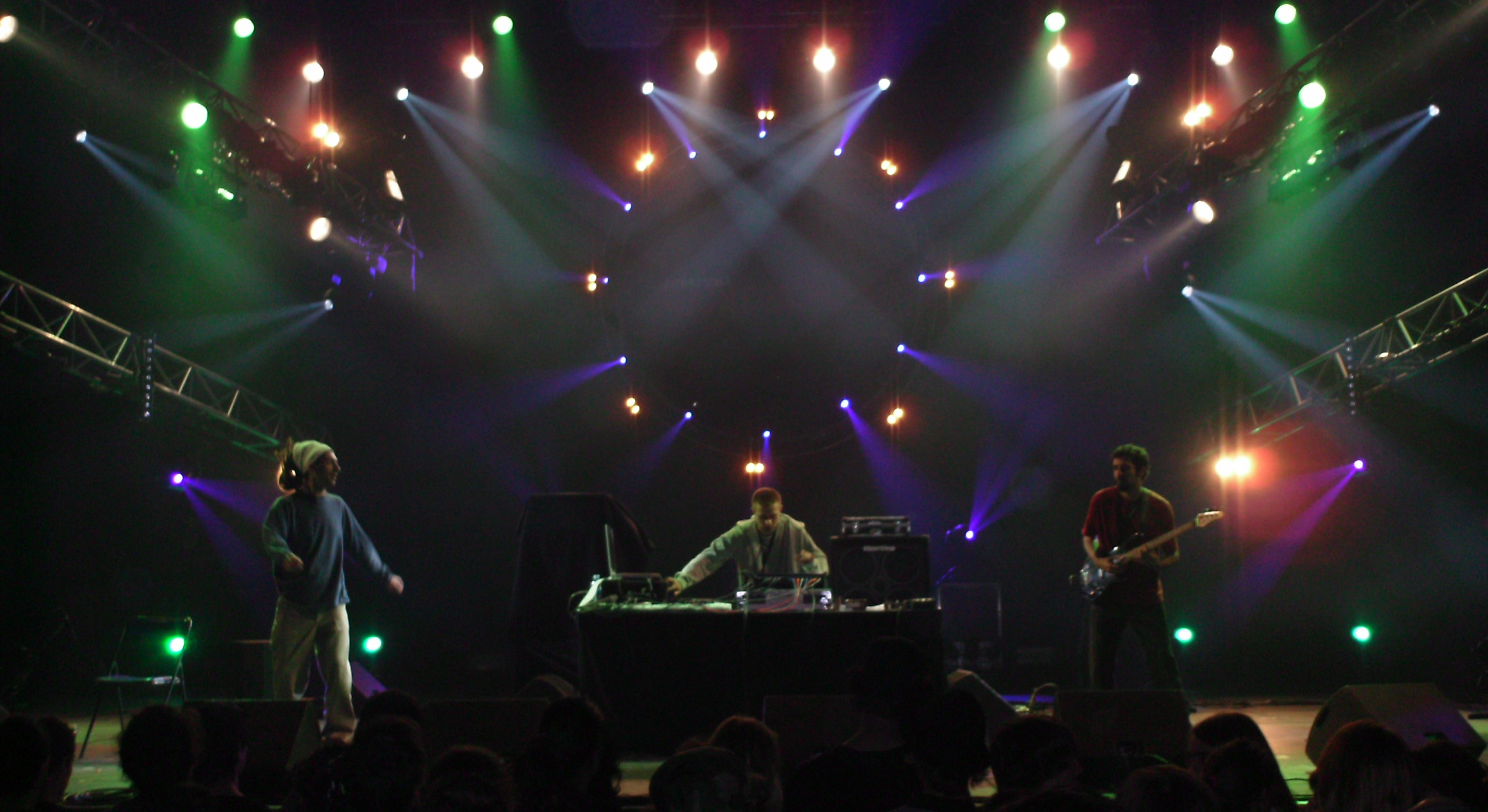 Kanka feat. Mc Olivia & Chris B, live at Rocktambule festival in Grenoble, France